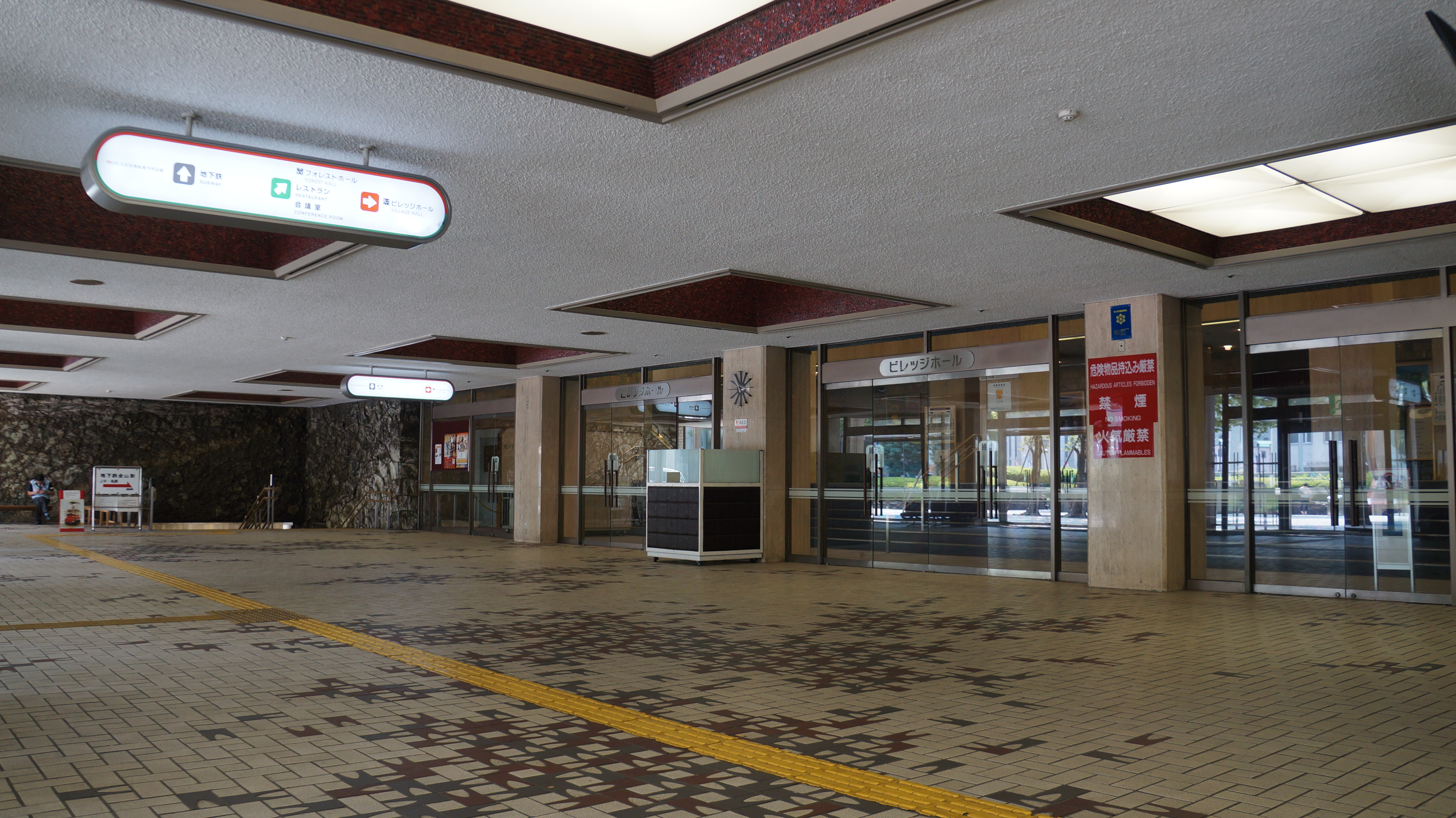 Village Hall in NTK Hall, Nagoya City, Japan.